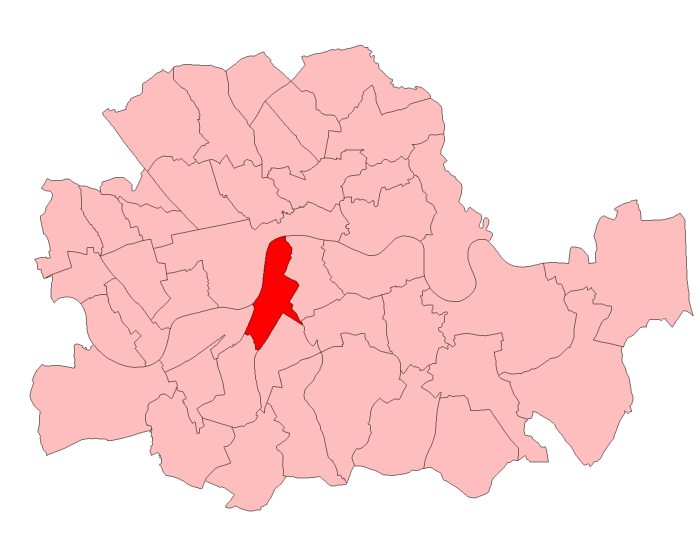 A map of Vauxhall constituency within the London County Council area, as it existed from 1950 to 1974.